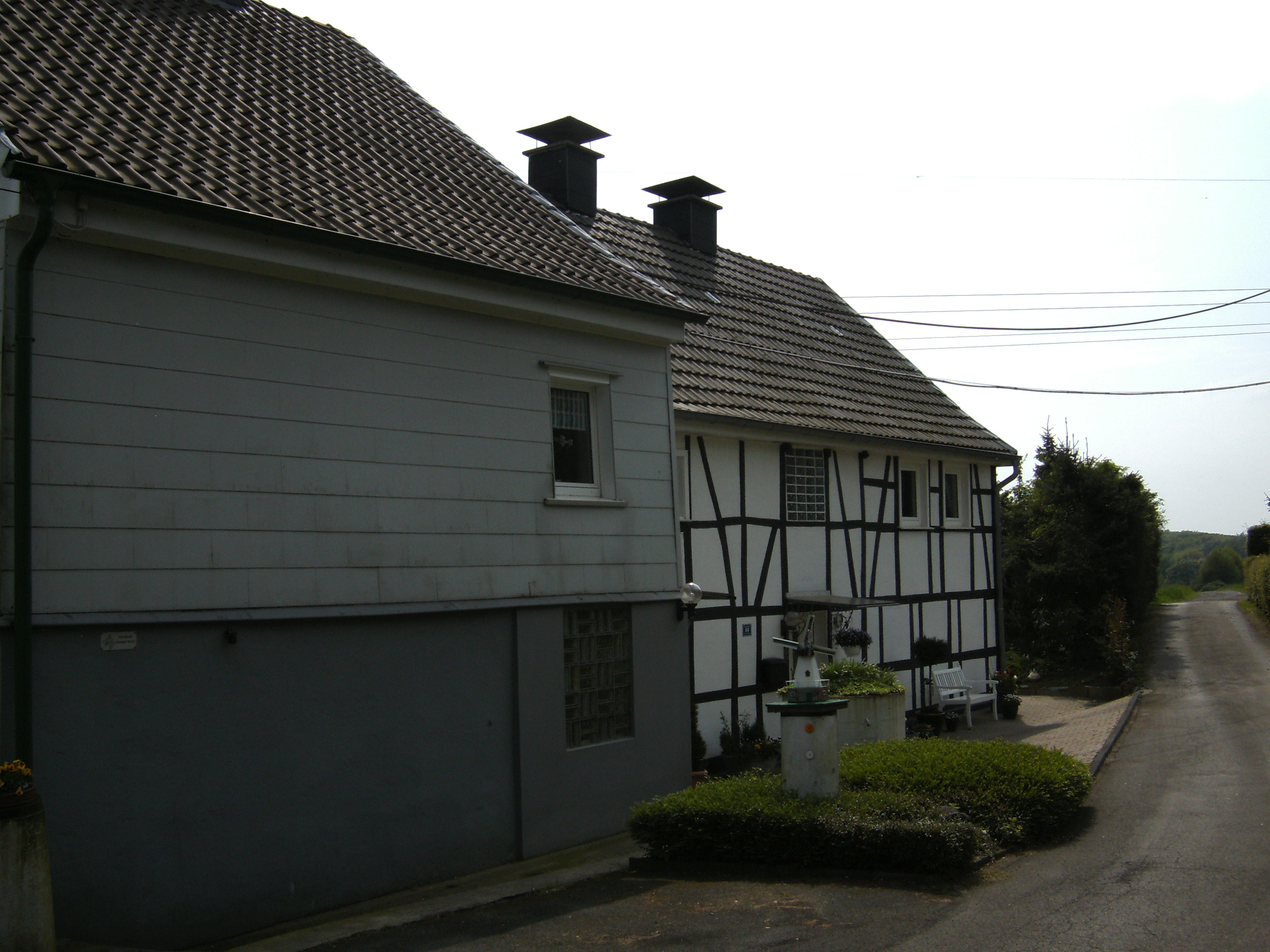 Wuppertal-Dönberg: Jungenholz